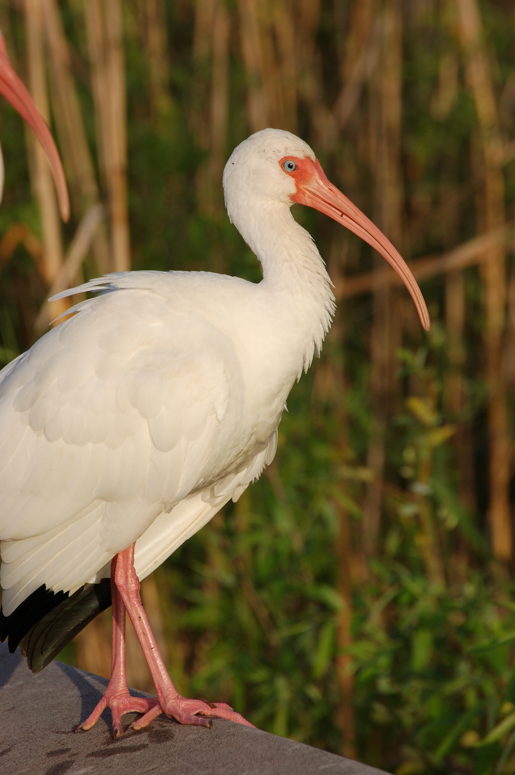 Adult White Ibis (Eudocimus albus) found in Everglades National Park in Florida near Miami